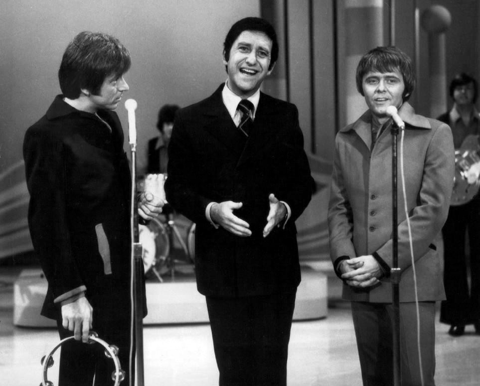 Photo of songwriters/musicians Bobby Hart (left) and Tommy Boyce with comedian Soupy Sales on his television program The Soupy Sales Show.